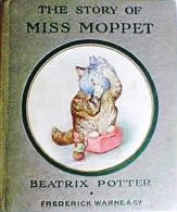 First edition cover of The Story of Miss Moppet by Beatrix Potter, first published in 1906.